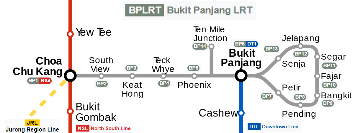 Singapore Bukit Panjang LRT Map